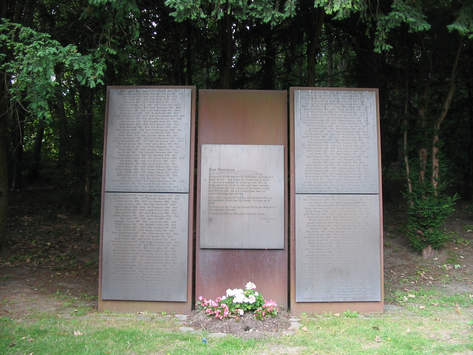 Forced labour memorial at communal cemetery in Witten-Annen